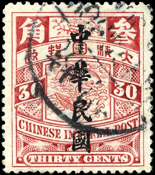 China 30-cent stamp of 1912 overprinted